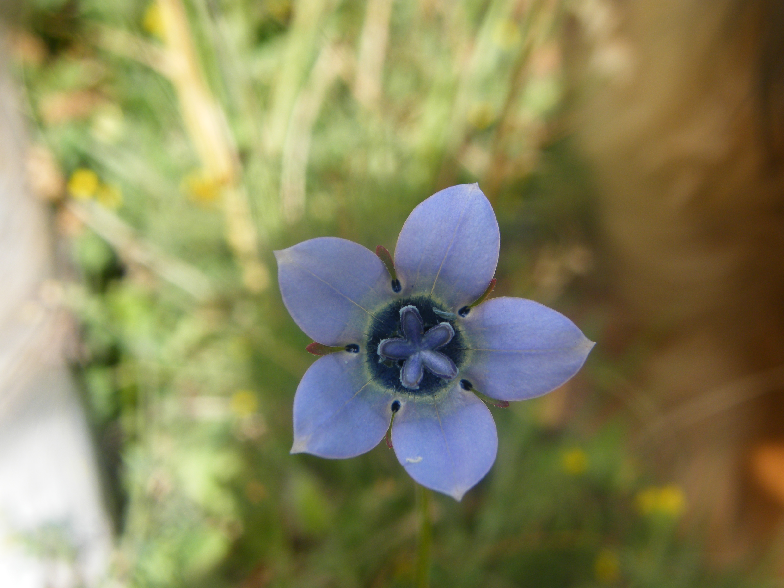 Campanulaceae